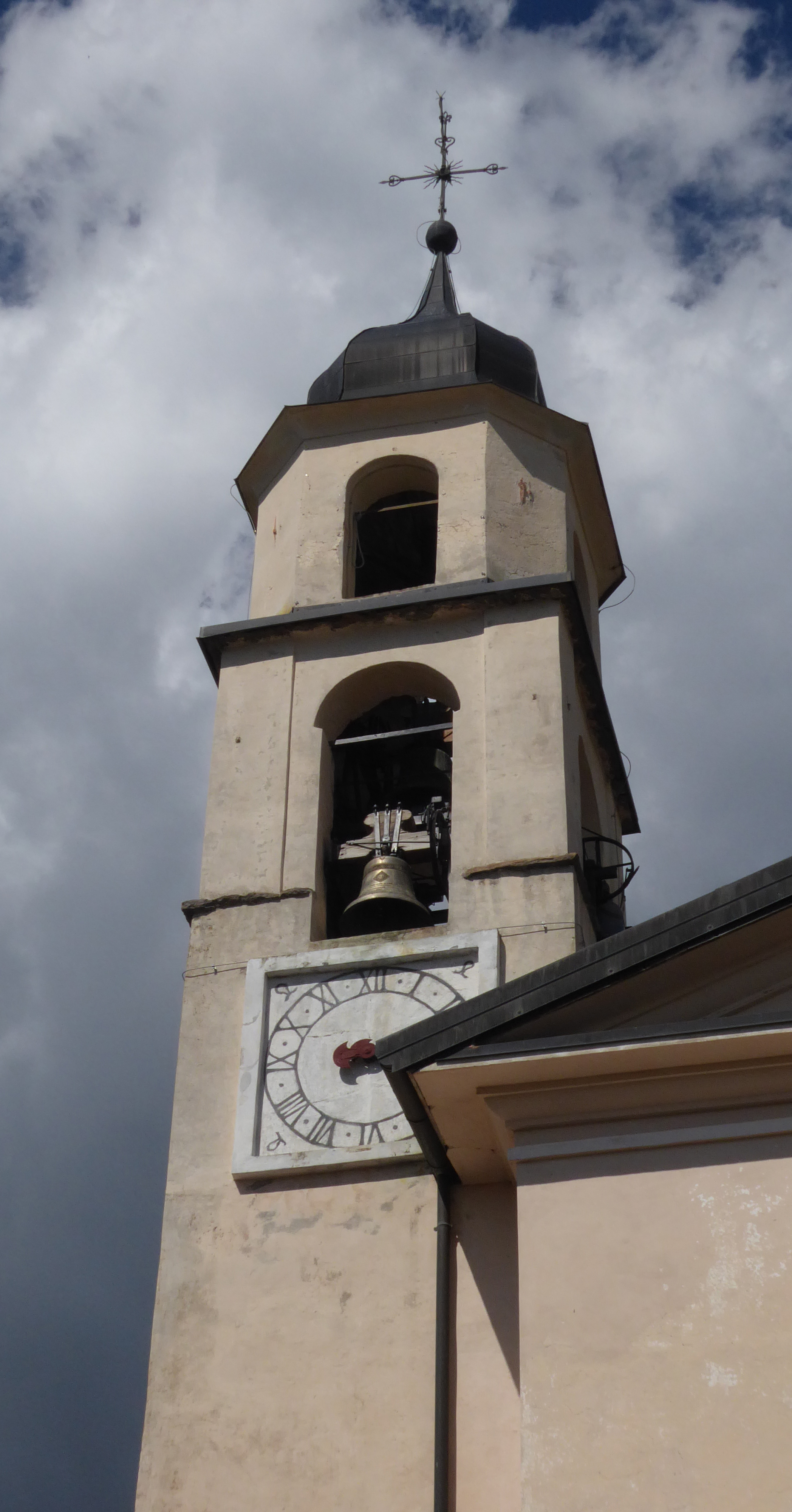 San Felice (Fierozzo, Trentino, Italy), Saint Felix of Nola church - Belltower